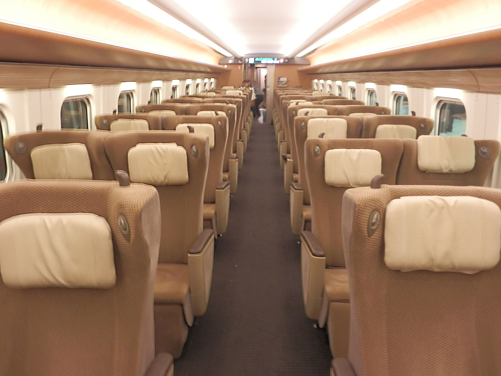 Interior of JR East E5 series shinkansen Green car